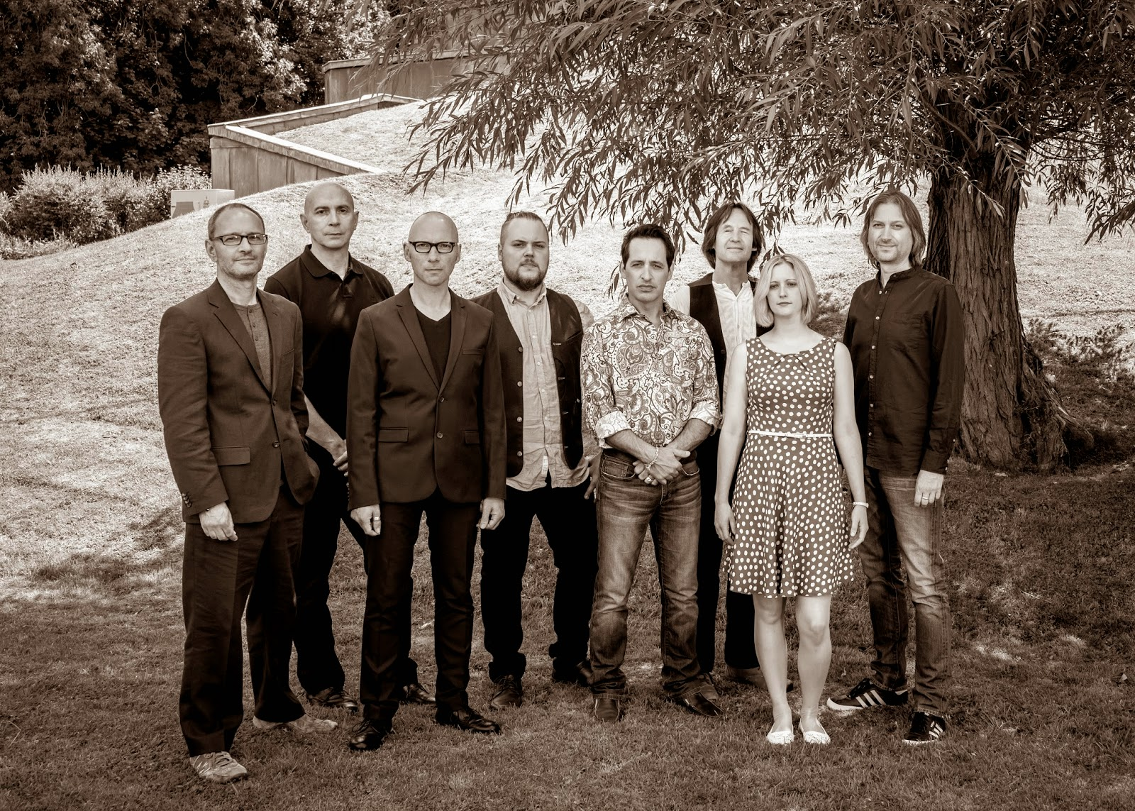 L-R: Andy Poole, Danny Manners, David Longdon, Rikard Sjöblom, Nick D'Virgilio, Dave Gregory, Rachel Hall, Greg Spawton